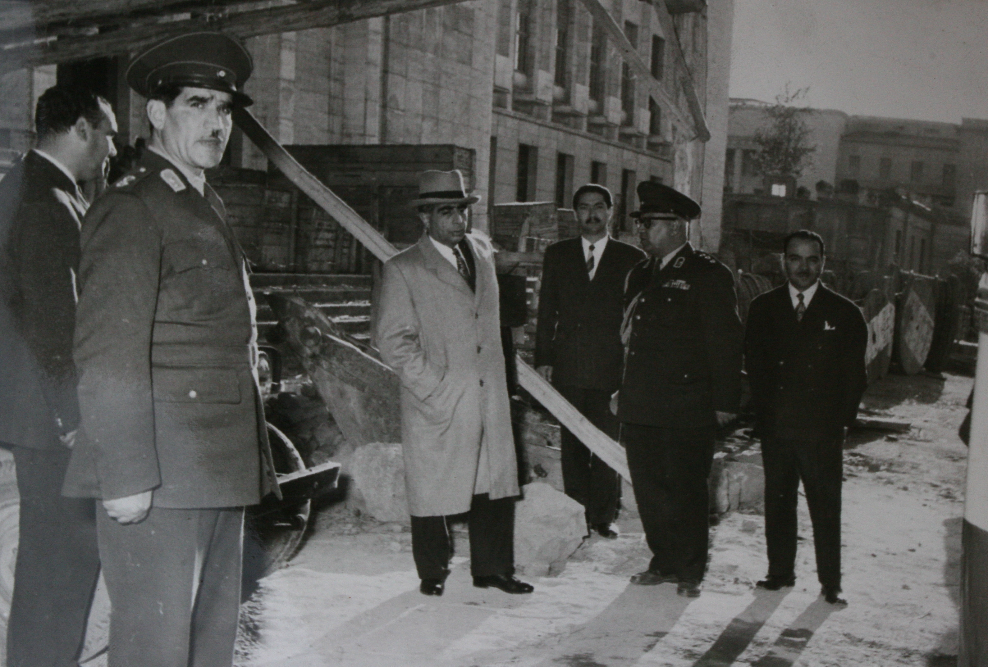 Ali-Akbar Zargham and Ali Amini